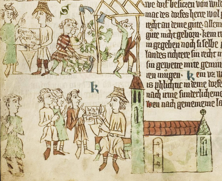 Sachsenspiegel, showing the German Ostsiedlung. Upper part: the locator (with a special hat) receives the foundation charter from the landlord. The settlers clear the forest and build houses. Lower part: the locator acts as the judge in the village.